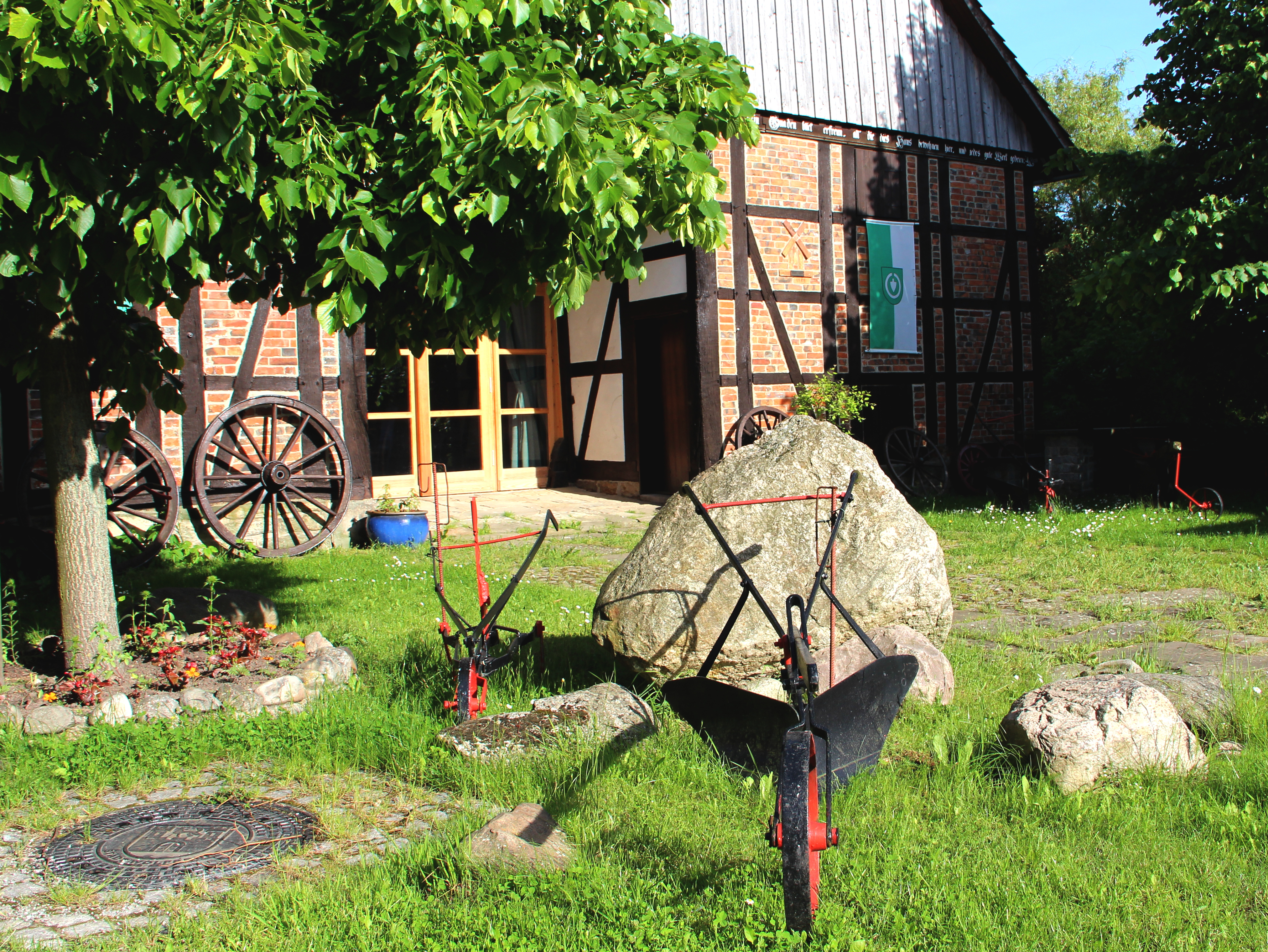 Niedersachsenhaus Wendschott Wolfsburg